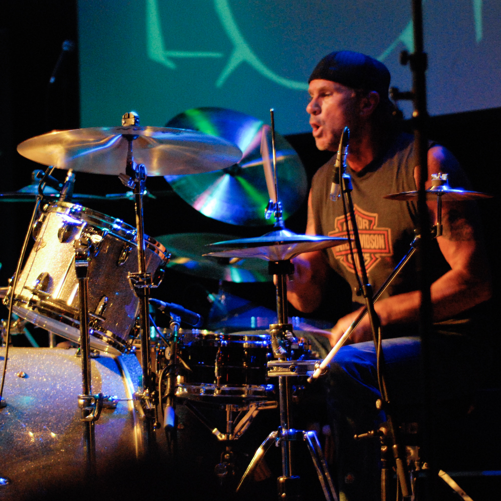 Chad Smith performing at a drum clinic in 2007.